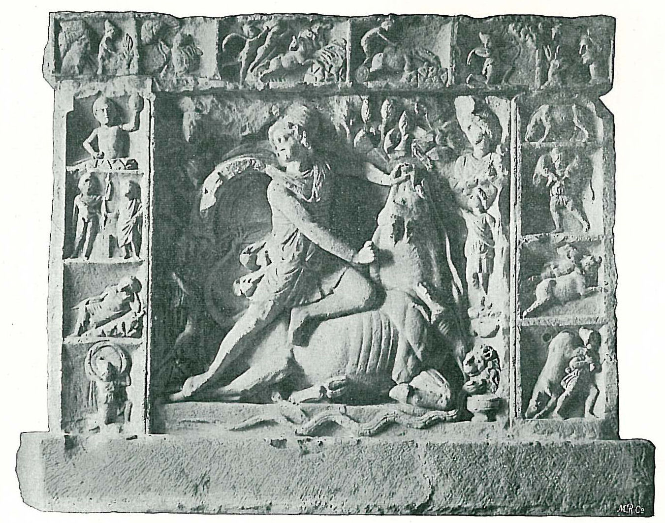 historical view of Heidelberg